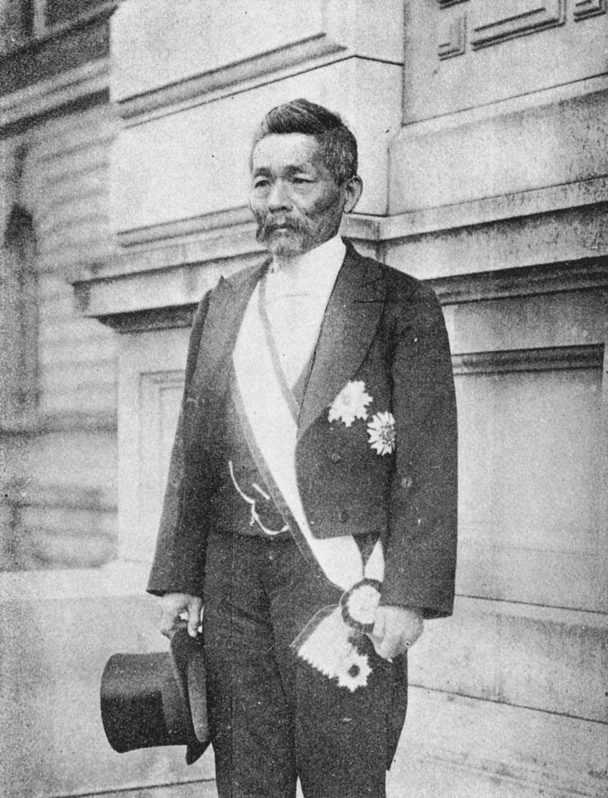 Portrait of Late Baron Yoshito Okuda.